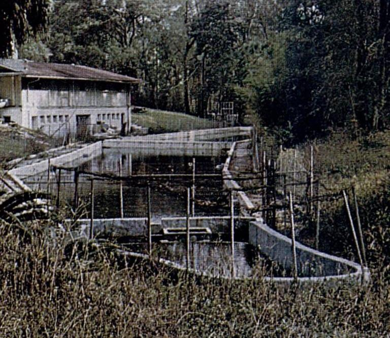 Glen Spring in Gainesville, Florida, taken in 1977 for the Florida Geological Survey Bulletin 31